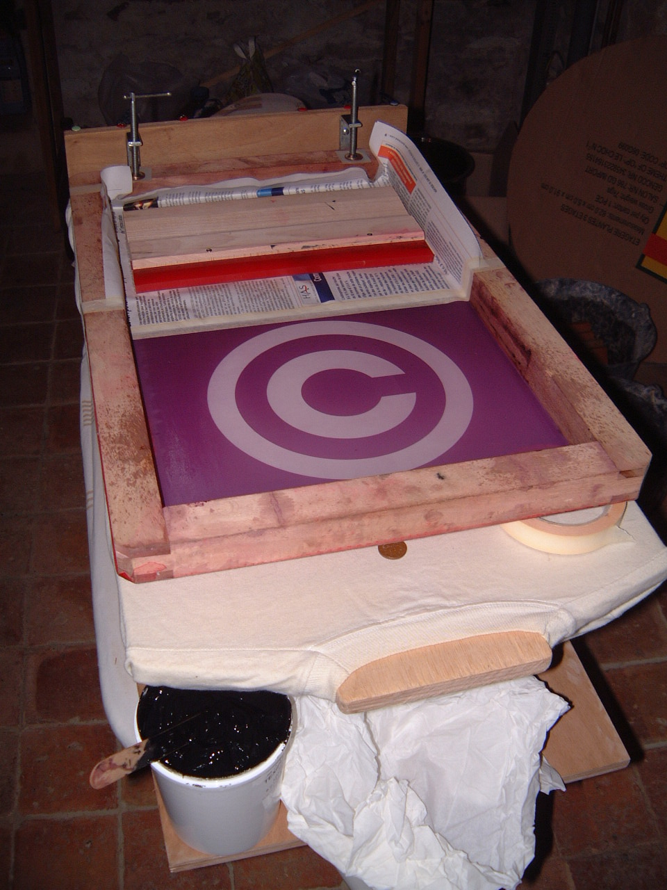 Screenprinting test